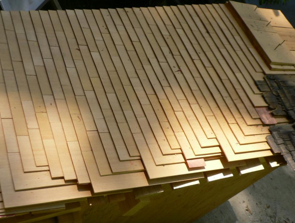 Kokera buki(A kind of antique roof structure in Japan)